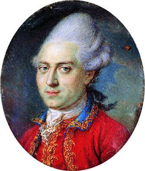 Portrait of Johann Friedrich Struensee (1737-1772)